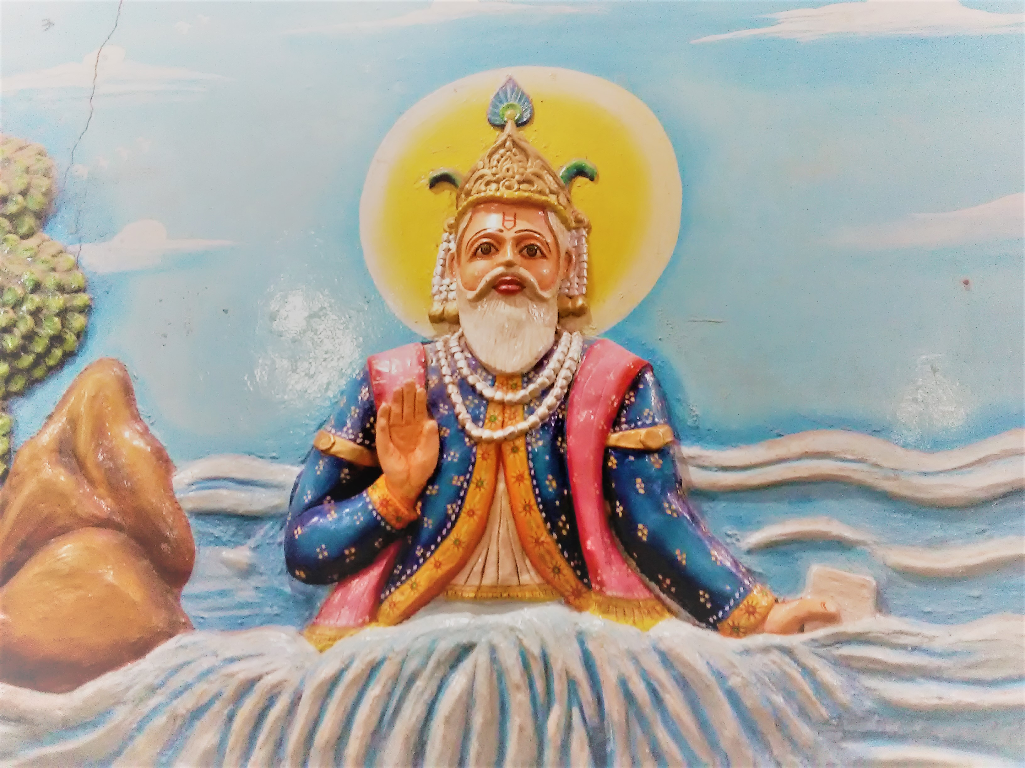 This photo was captured in jhulelal mandir situated in nadiad